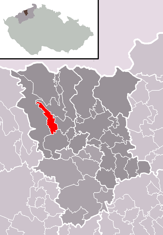 Location of Háj u Duchcova municipality within Teplice District and administrative area of Teplice as a Municipality with Extended Competence.